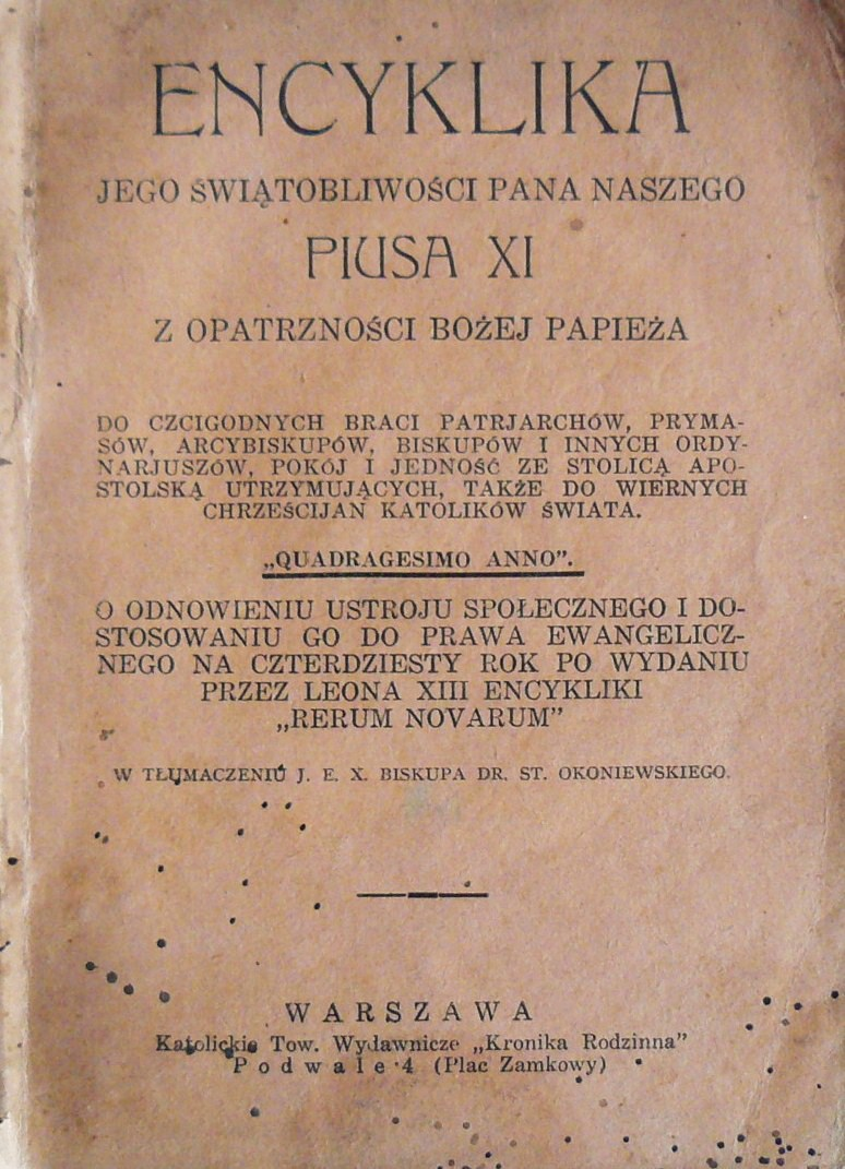 Quadragesimo Anno, Encyclical from Pius XI. Polish edition.